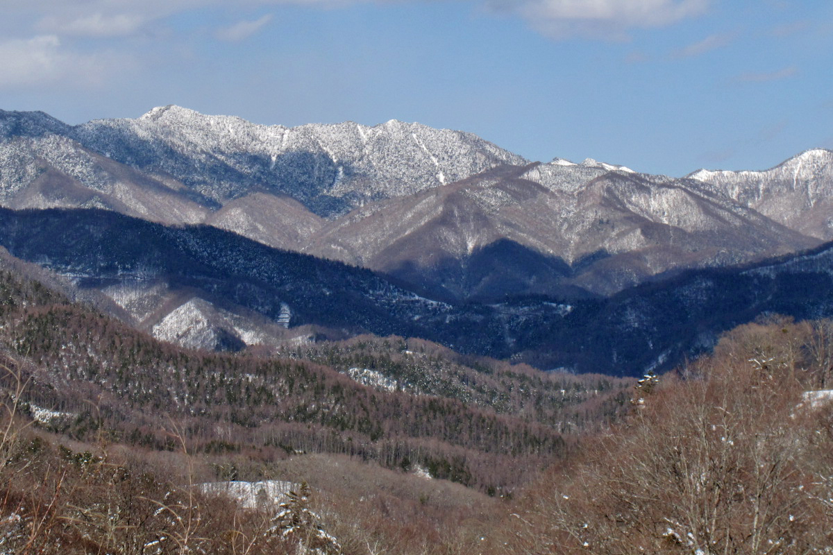 The SSW side of Mount Karamatsuo in the border between Yamanashi & Saiatama Prefectures, Japan.